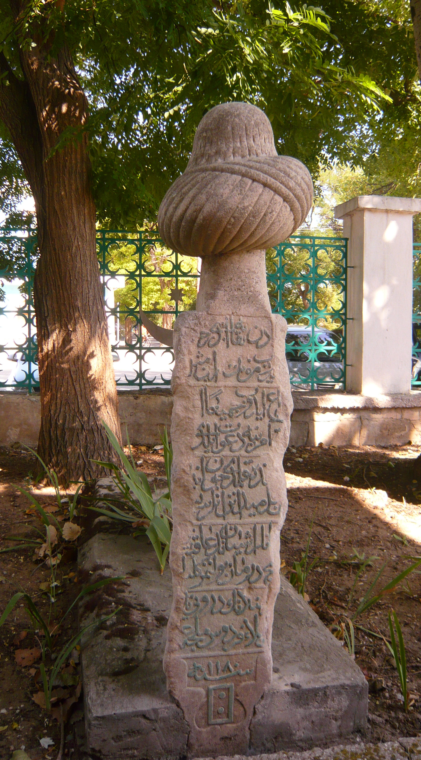 Juma-Juma Mosques in Eupatoria graves